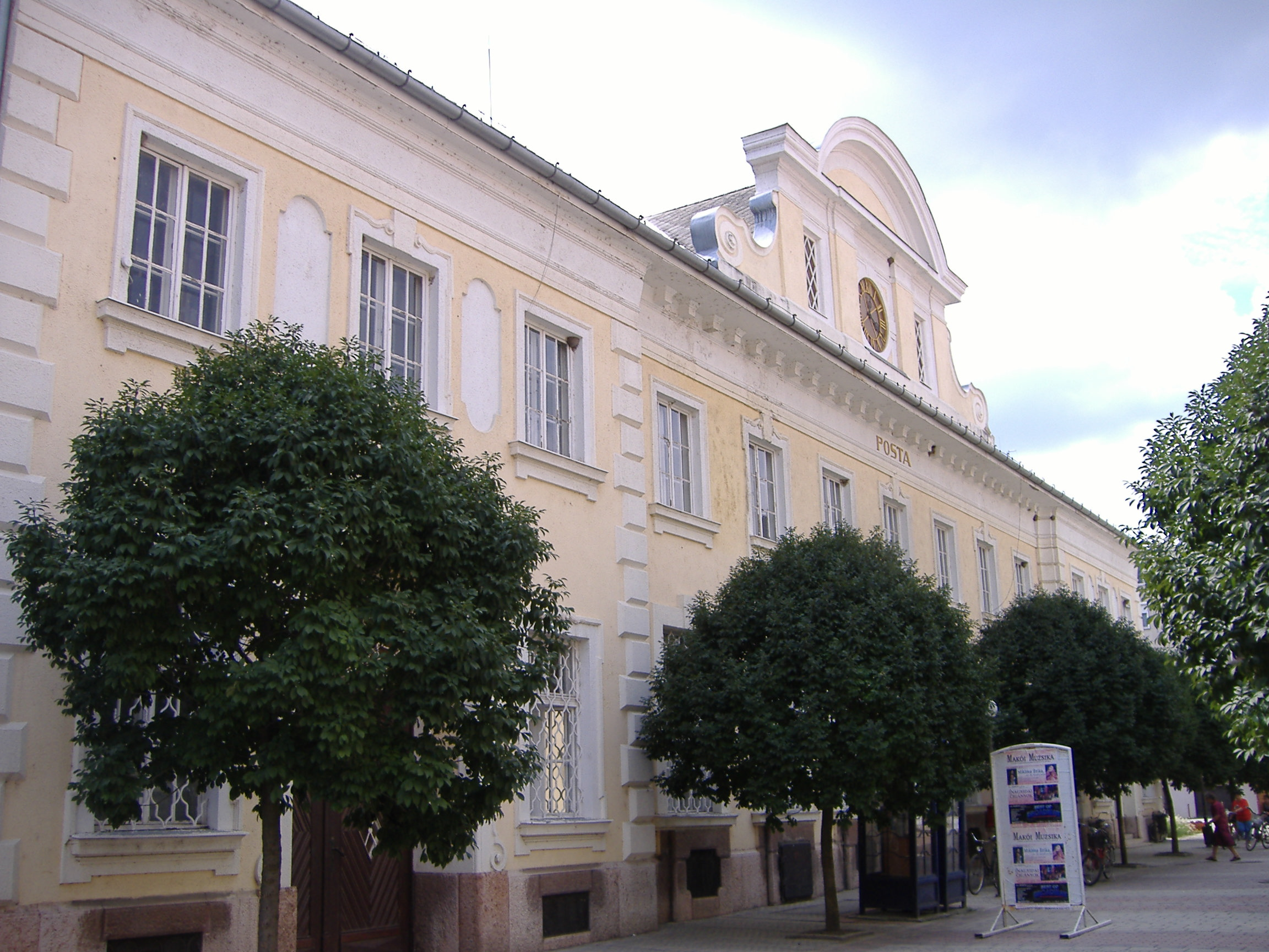 The Post-office mansion in Makó, Hungary.